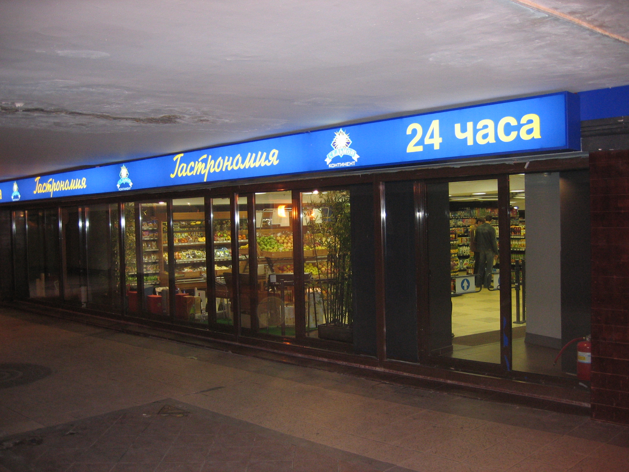 Seventh Continent shop, Moscow